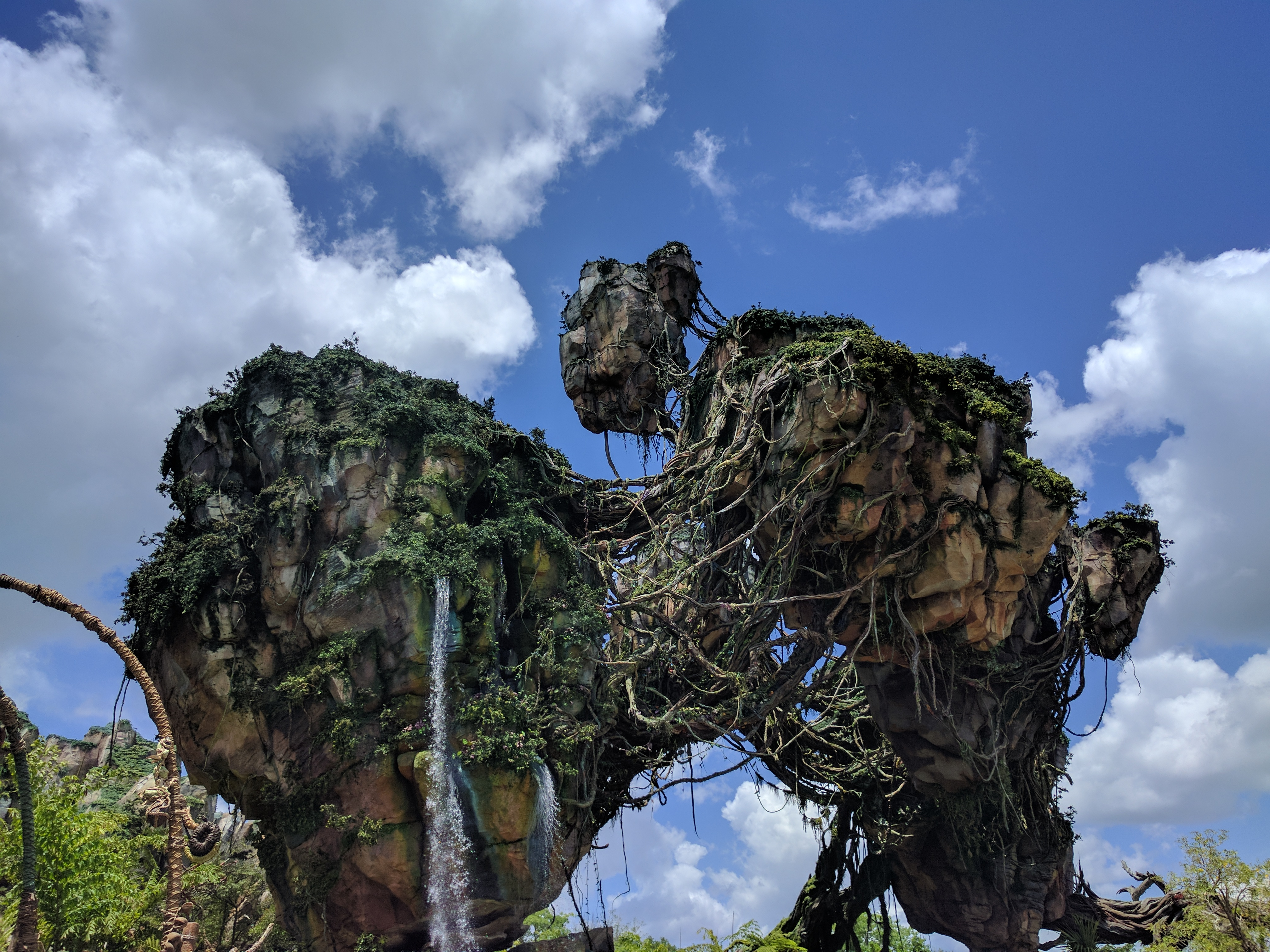 Cast Pongu (Party) at Pandora-The World of Avatar